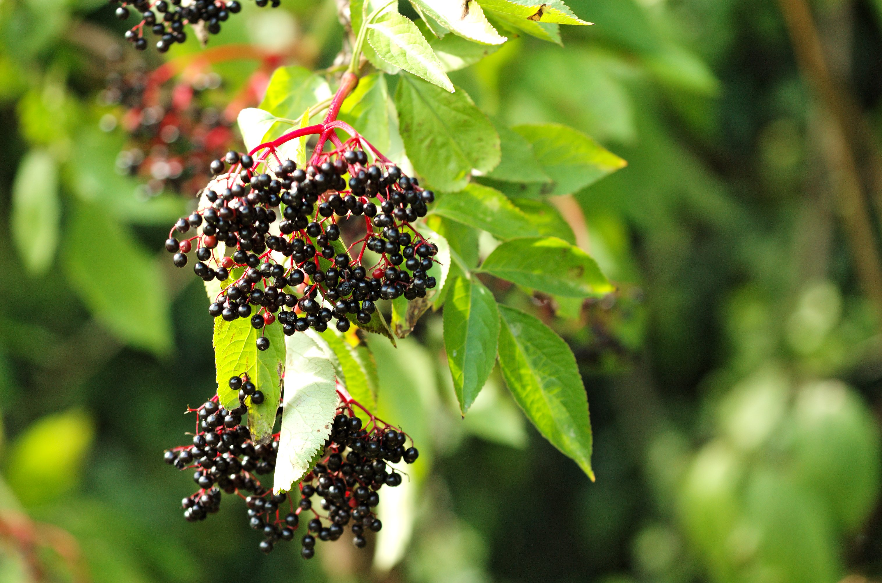 Elderberry berries, Verulamium Park, St Albans.